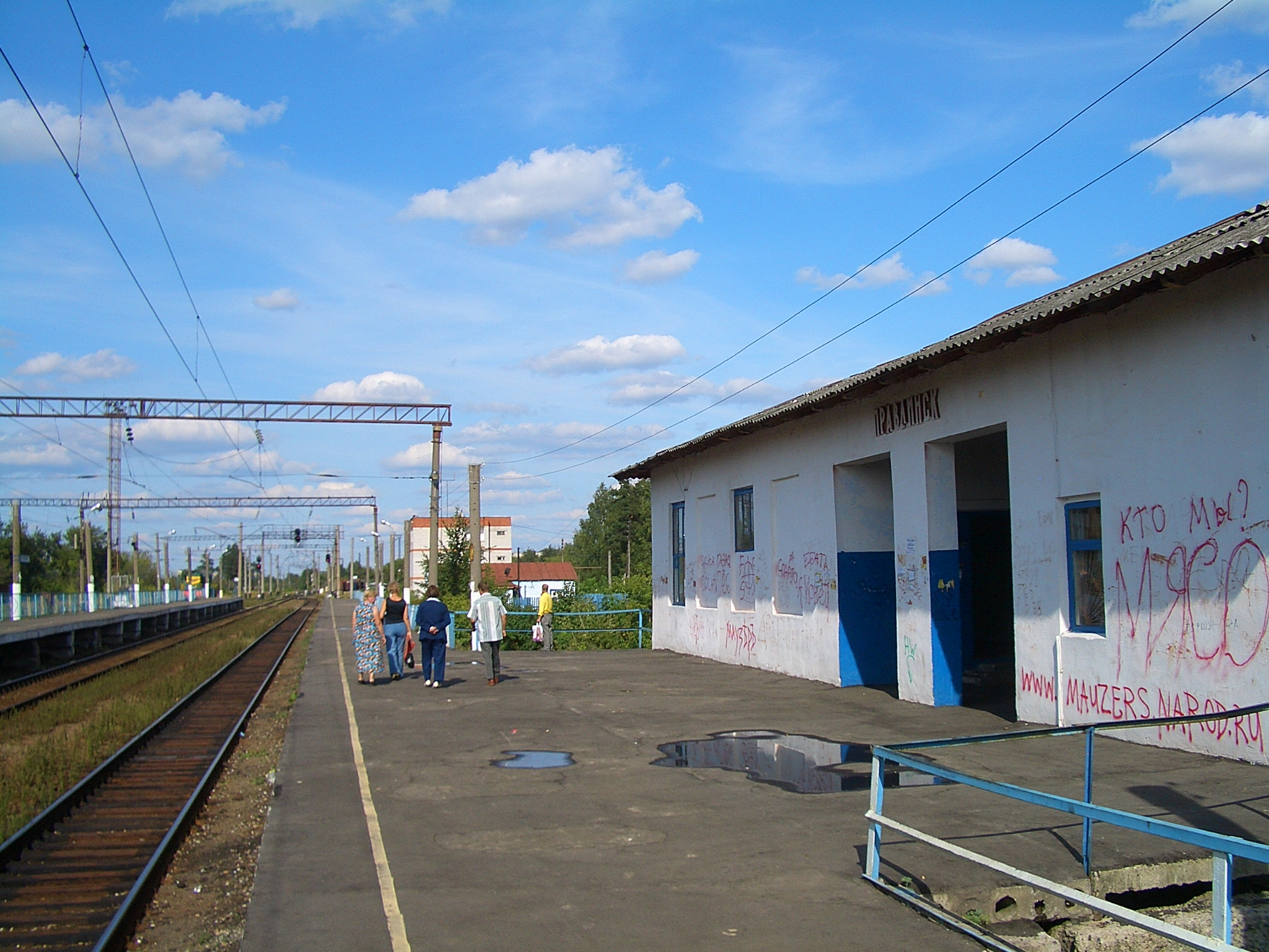 Pravdinsk commuter train station, on the Nizhny Novgorod - Zavolzhye rail line (north-western part of Balakhna)